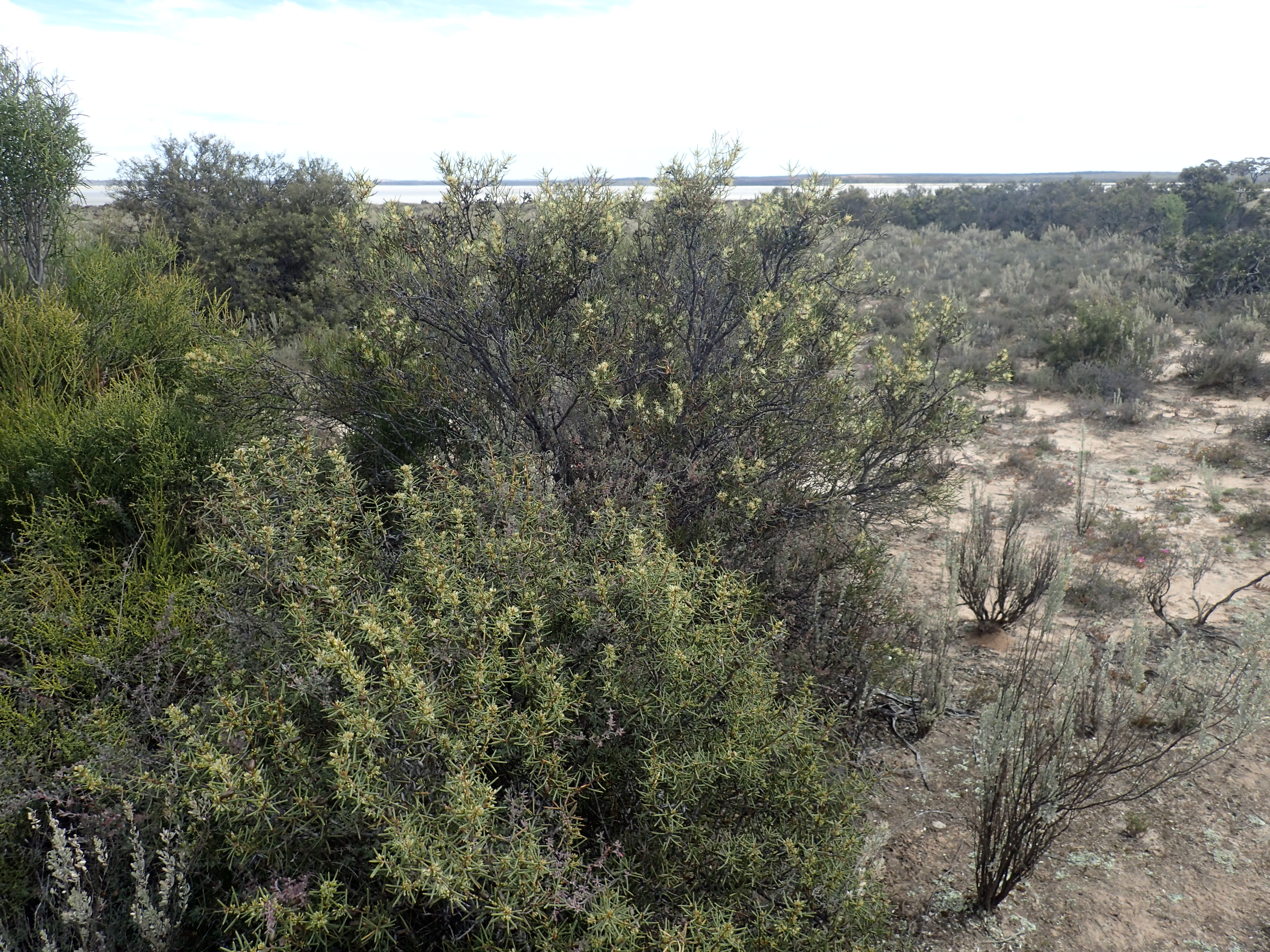 Hakea preissii habit ner Lake Hurlstone